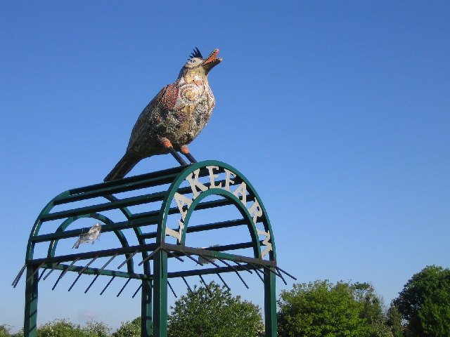 Bird Sculpture at Lake Farm Park, Hayes.